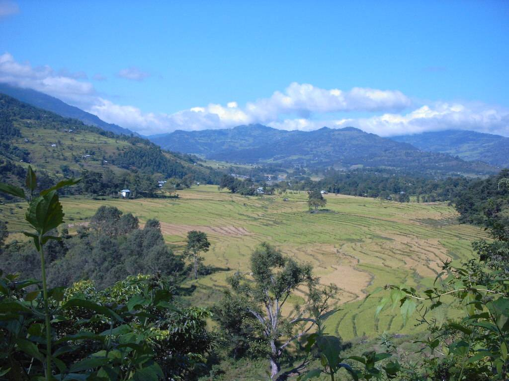 The panoramic view from Lamjung, Sundar Bazaar,Nepal